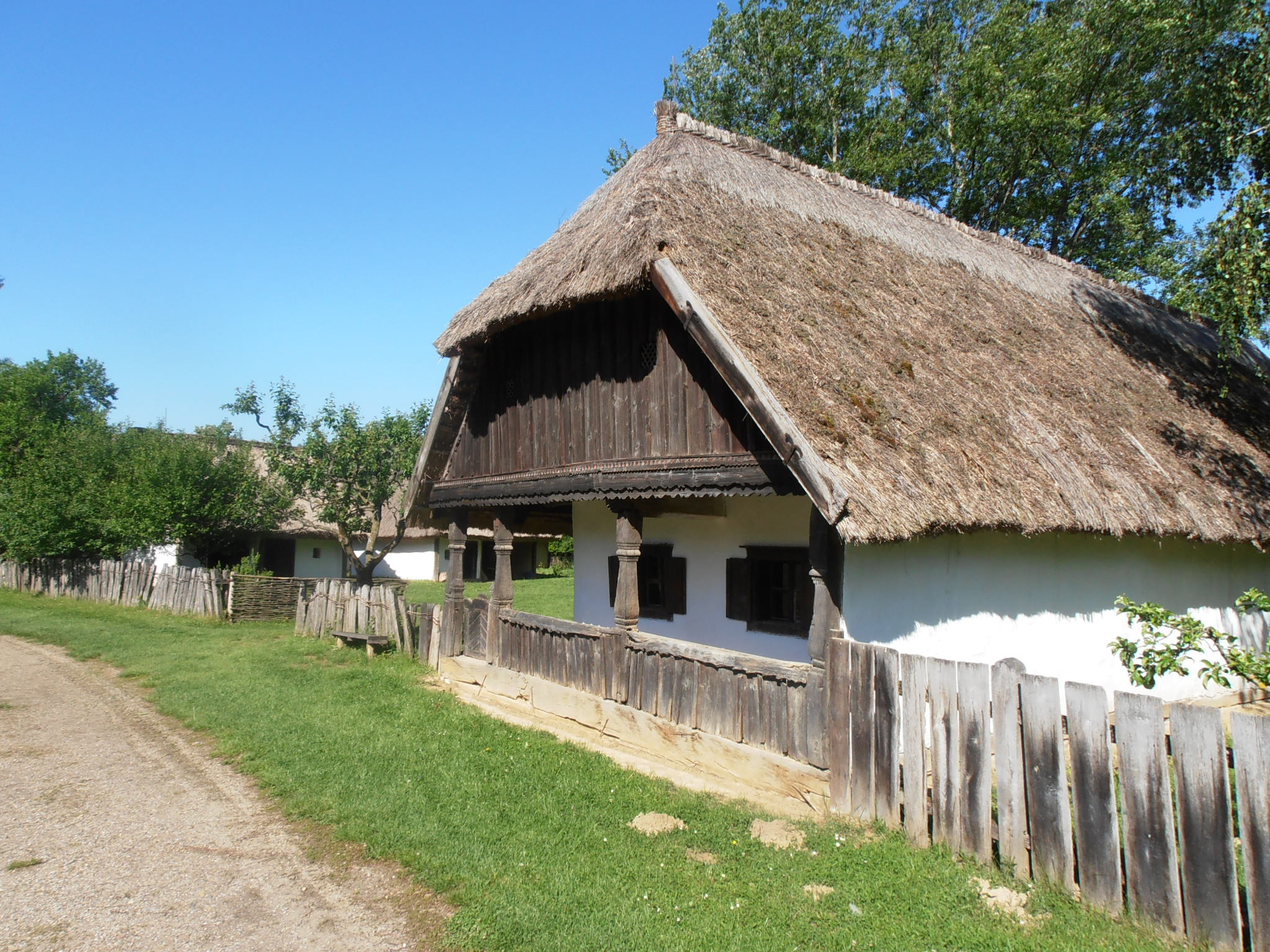 Old house of Csököly, Hungary (now in Szenna open air museum)